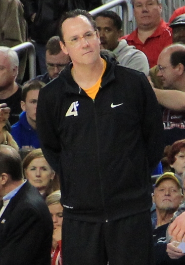 Wichita State Shockers men's basketball coach Gregg Marshall before Wichita State's NCAA Tournament Final Four matchup in Atlanta vs. Louisville.